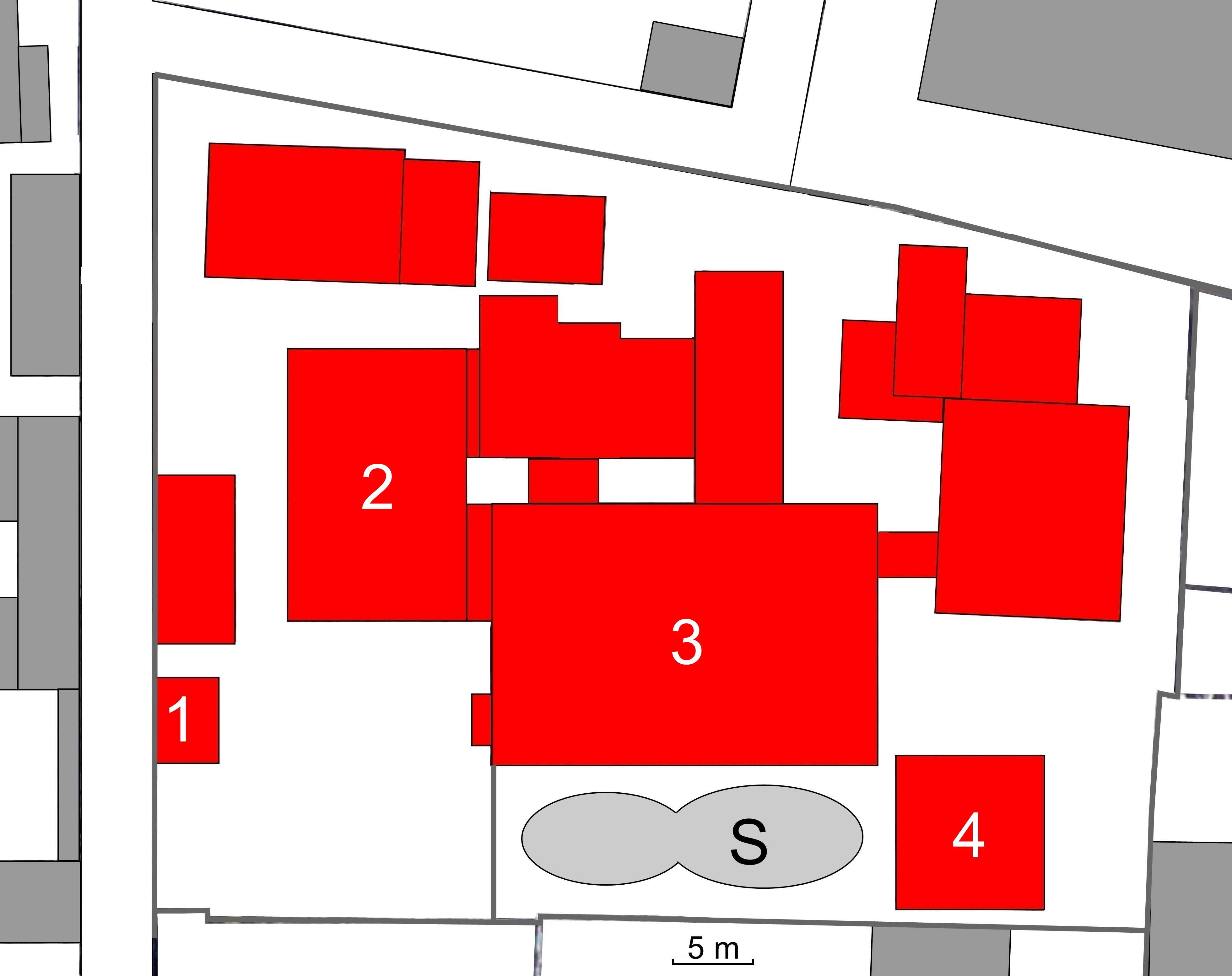 Layout of Daishin-in (Myôshin-ji), Kyôto, Japan